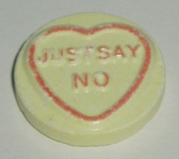 By Richard Wheeler (Zephyris) 07-03-2006